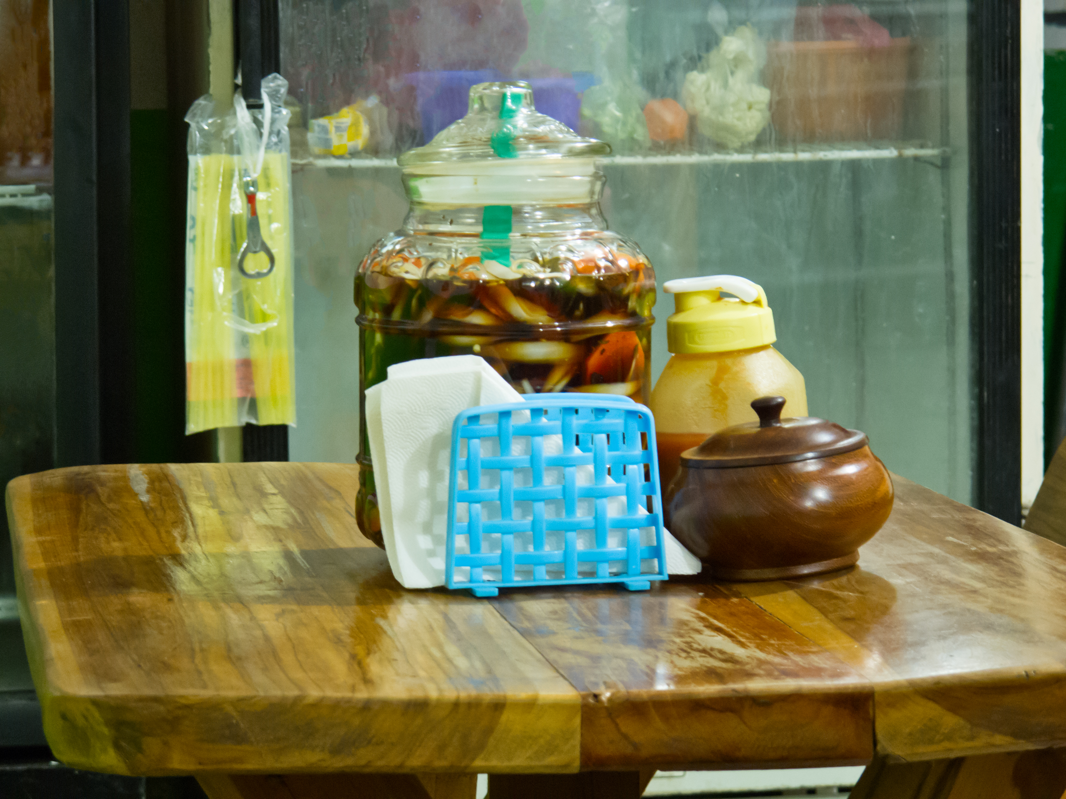 Curtido for pupusas, made of onions, chillies, and carrots (not all encurtido is made of cabbage). This is in a pupusería in Olocuilta, El Salvador